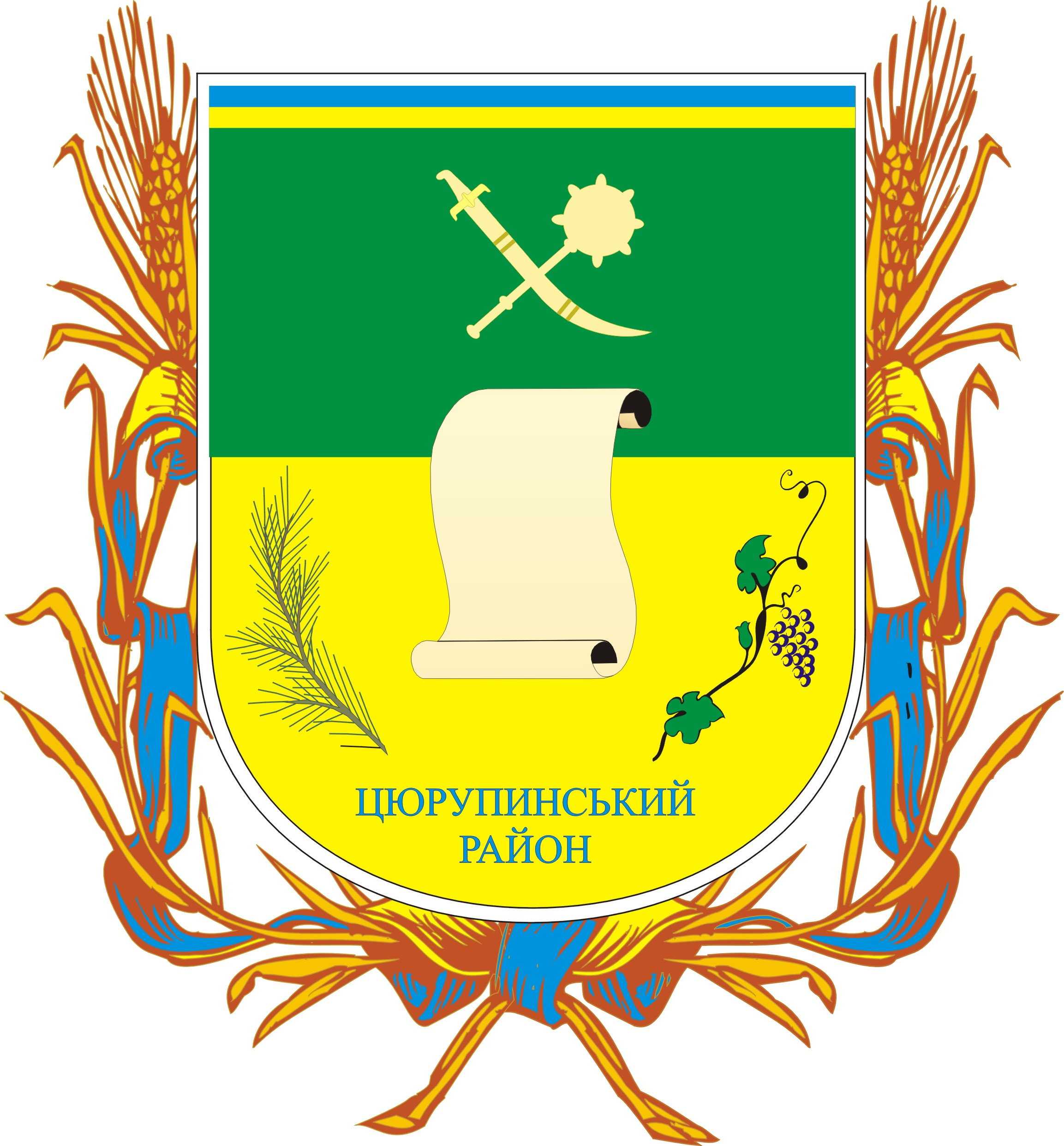 Coat of Arms of Curupynskyj raion